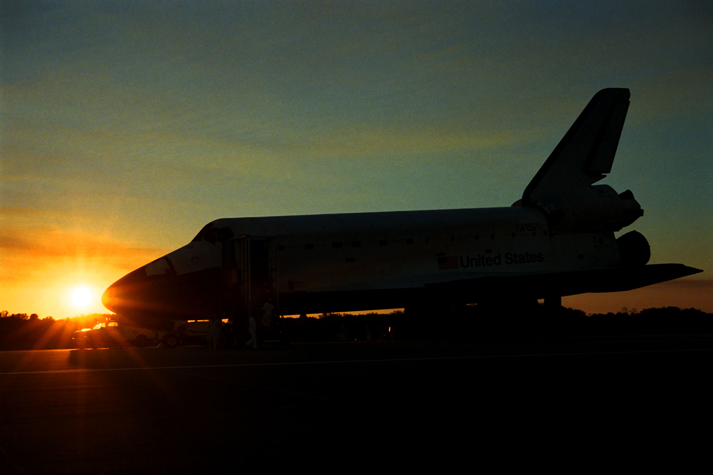 The orbiter Endeavour closes the day peacefully on KSC's Shuttle Landing Facility Runway 15, completing the nearly nine-day STS-89 mission. Main gear touchdown was at 5:35:09 p.m. EST on Jan. 31, 1998. The wheels stopped at 5:36:19 EST, completing a total mission time of eight days, 19 hours, 48 minutes and four seconds. The 89th Space Shuttle mission was the 42nd (and 13th consecutive) landing of the orbiter at KSC, and STS-89 was the eighth of nine planned dockings of the Space Shuttle with the Russian Space Station Mir. STS-89 Mission Specialist Andrew Thomas, Ph.D., succeeded NASA astronaut and Mir 24 crew member David Wolf, M.D., who was on the Russian space station since late September 1997. Dr. Wolf returned to Earth on Endeavour with the remainder of the STS-89 crew, including Commander Terrence Wilcutt; Pilot Joe Edwards Jr.; and Mission Specialists James Reilly, Ph.D.; Michael Anderson; Bonnie Dunbar, Ph.D.; and Salizhan Sharipov with the Russian Space Agency. Dr. Thomas is scheduled to remain on Mir until the STS-91 Shuttle mission returns in June 1998. In addition to the docking and crew exchange, STS-89 included the transfer of science, logistical equipment and supplies between the two orbiting spacecrafts. This image or video was catalogued by one of the centers of the United States National Aeronautics and Space Administration (NASA) under Photo ID: KSC-98PC-0260. This tag does not indicate the copyright status of the attached work. A normal copyright tag is still required. See Commons:Licensing.